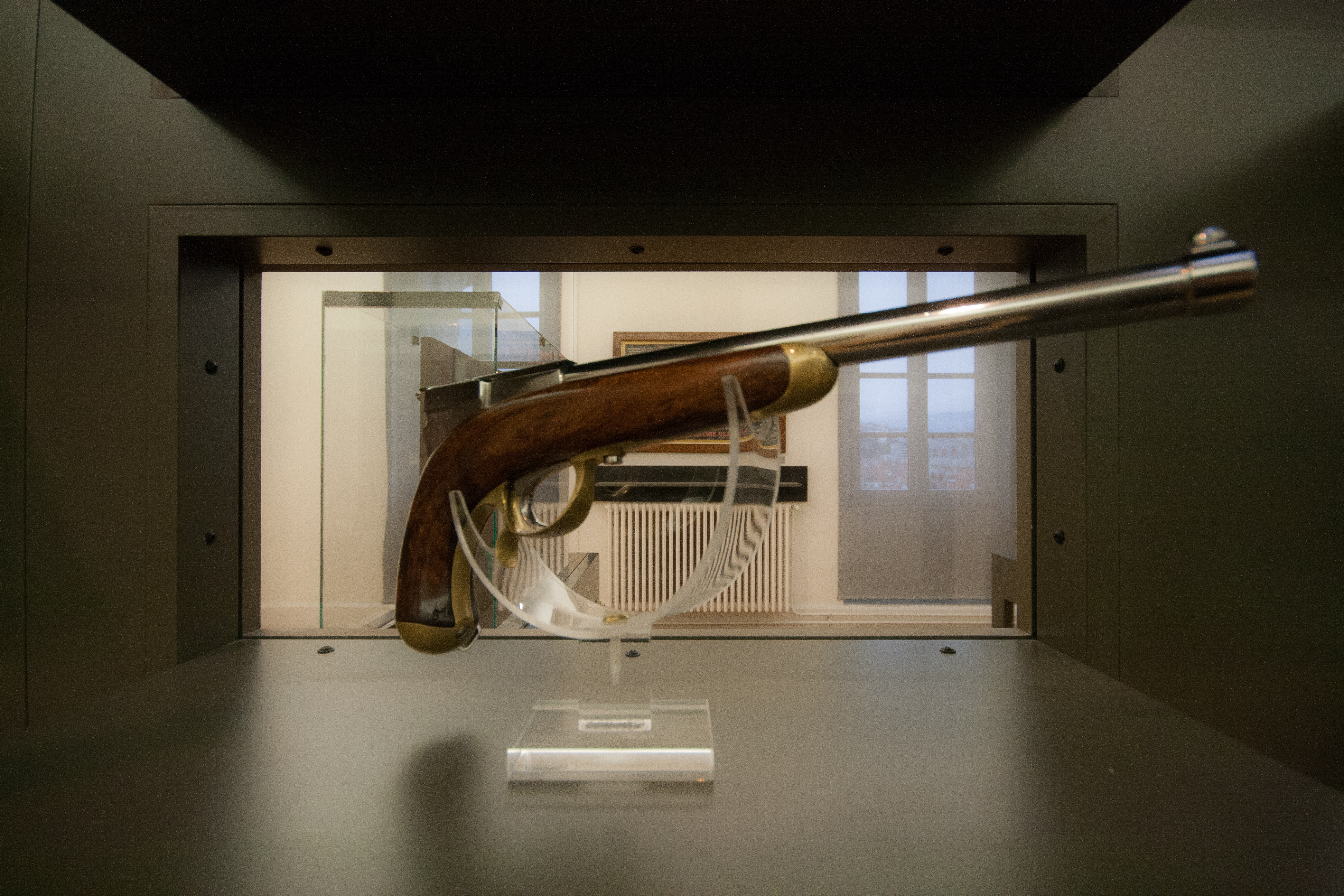 Beaulieu Treuille gun, model 1854. Made in 1854 by the Imperial Manufactory Chatellerault. Superior weaponry system using a cartridge spindle. Weapons Department in the Museum of Art and Industry in Saint-Étienne, France.